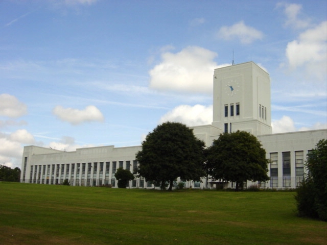 Littlewoods Pools Building, Edge Lane. A real Liverpool landmark, this art-deco building was the headquarters of the Littlewoods Pools company. In its heyday this building held thousands of workers but since the decline in popularity of "doing the pools" the listed building now lies empty, possibly awaiting conversion to apartments